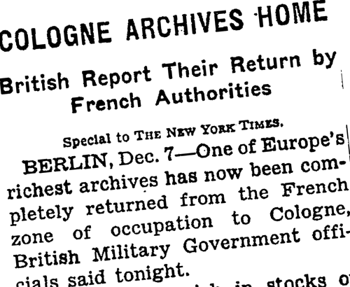 Snippet from the New York Times, 1946-12-08, about the Return of Cologne Archives from the French zone of occupation